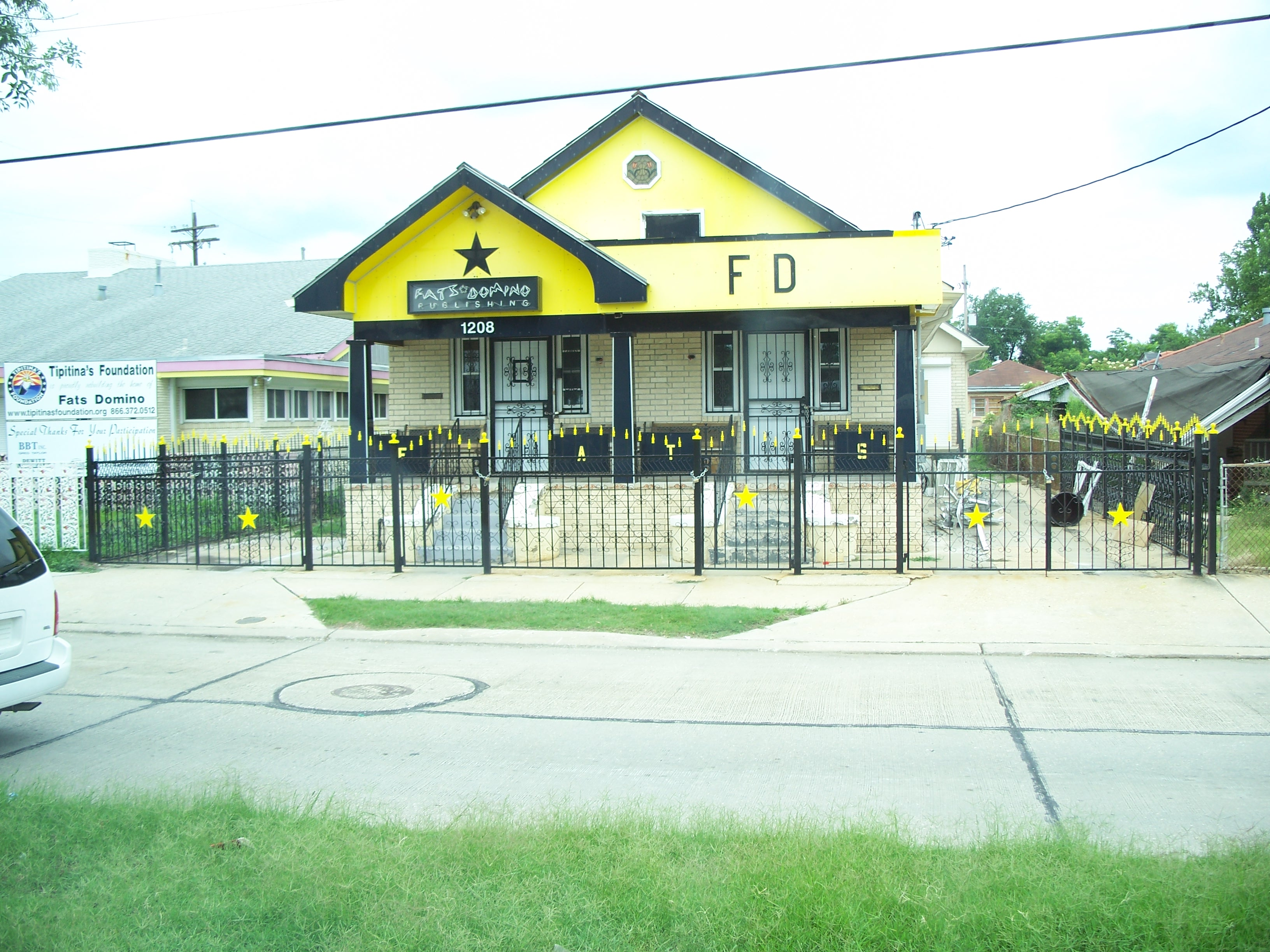 Fats Domino's office, Lower 9th Ward, New Orleans. June 2007